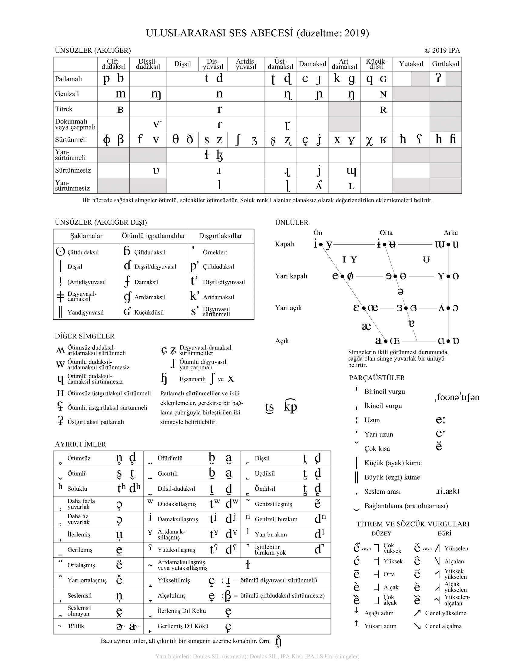 International Phonetic Association translated to Turkish